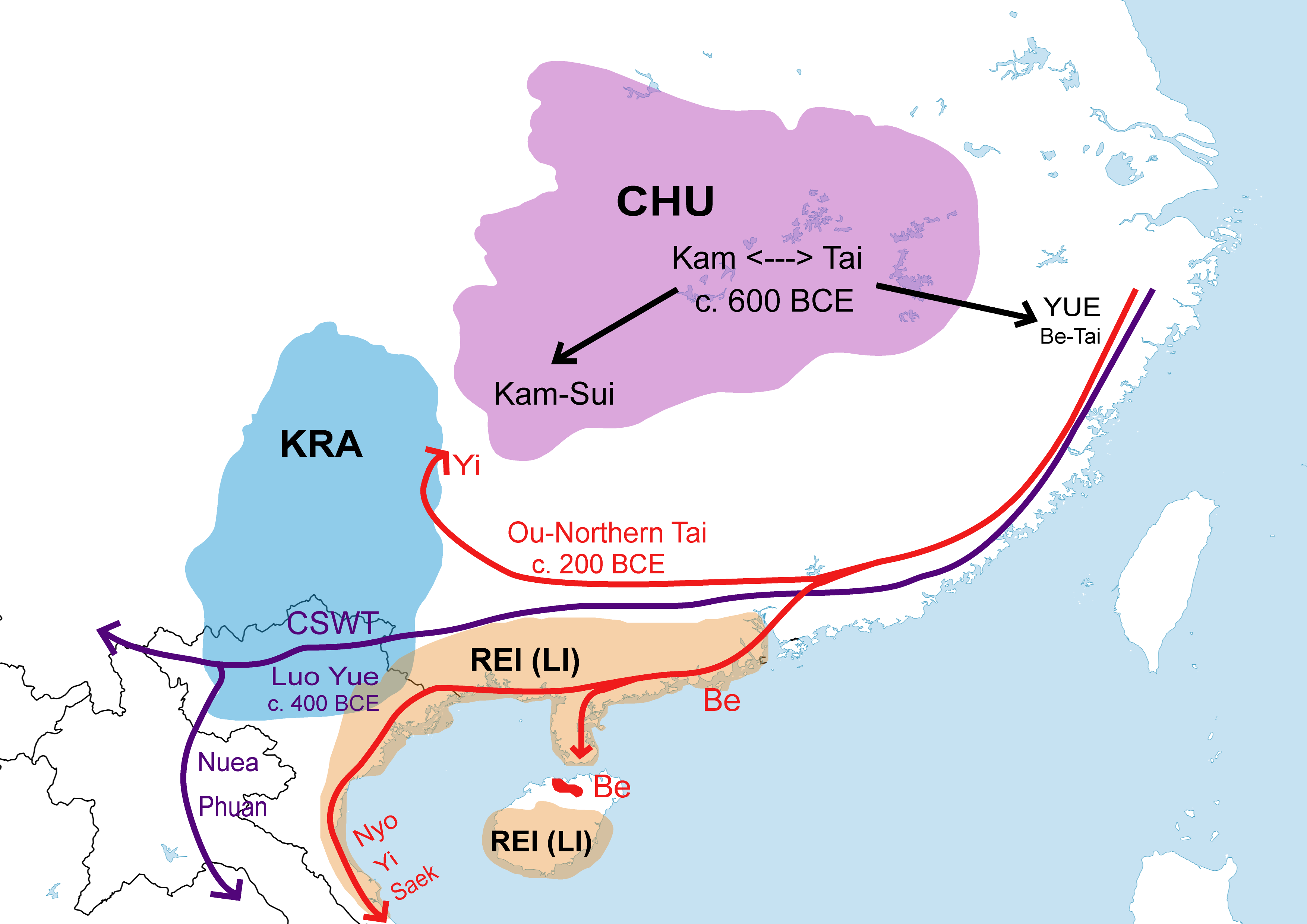 Kra-Tai migration routes from the ancient state of Chu.